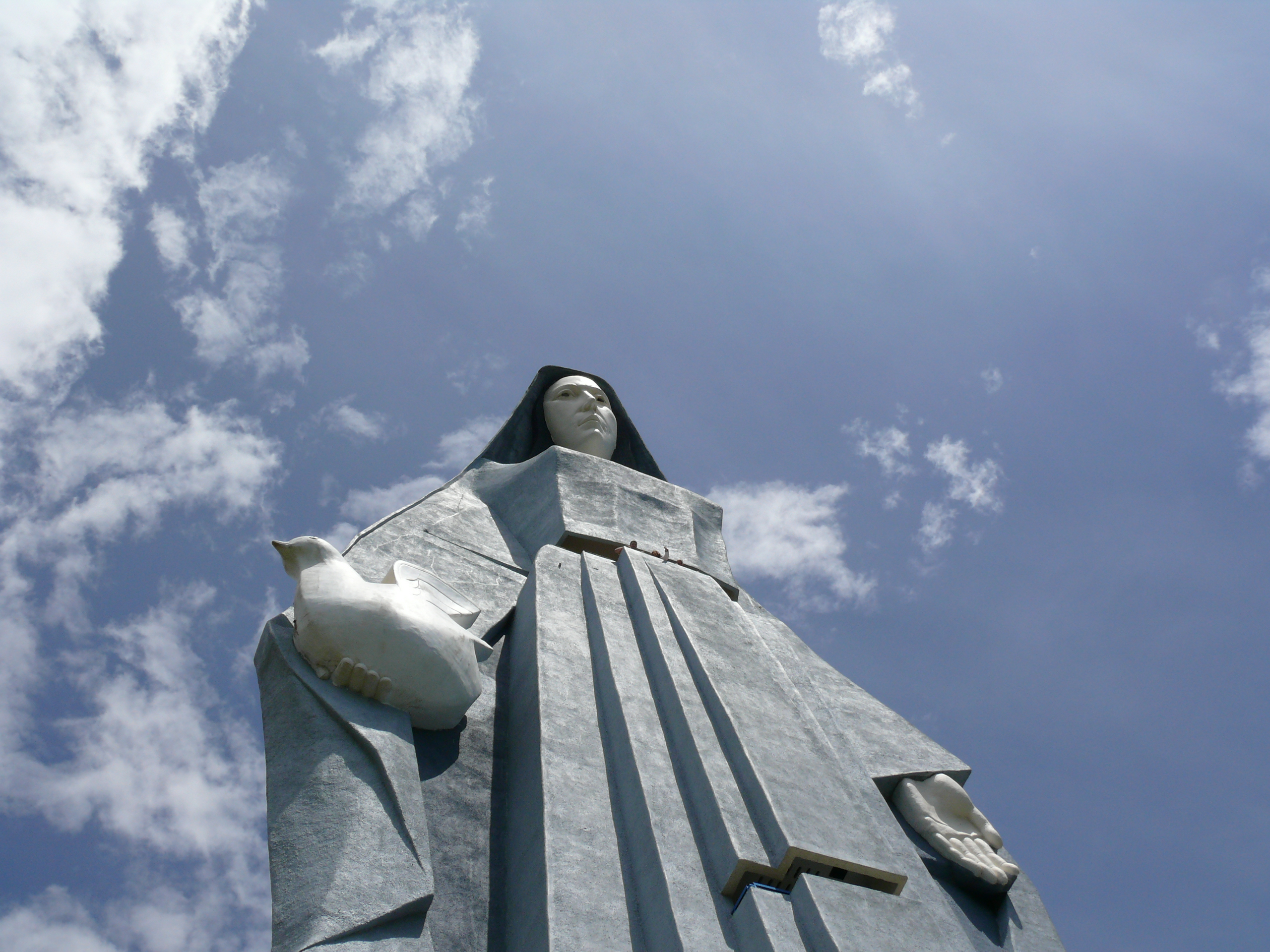 Virgen de la Paz Statue, the highest statue in Latin America. Trujillo State, Venezuela.